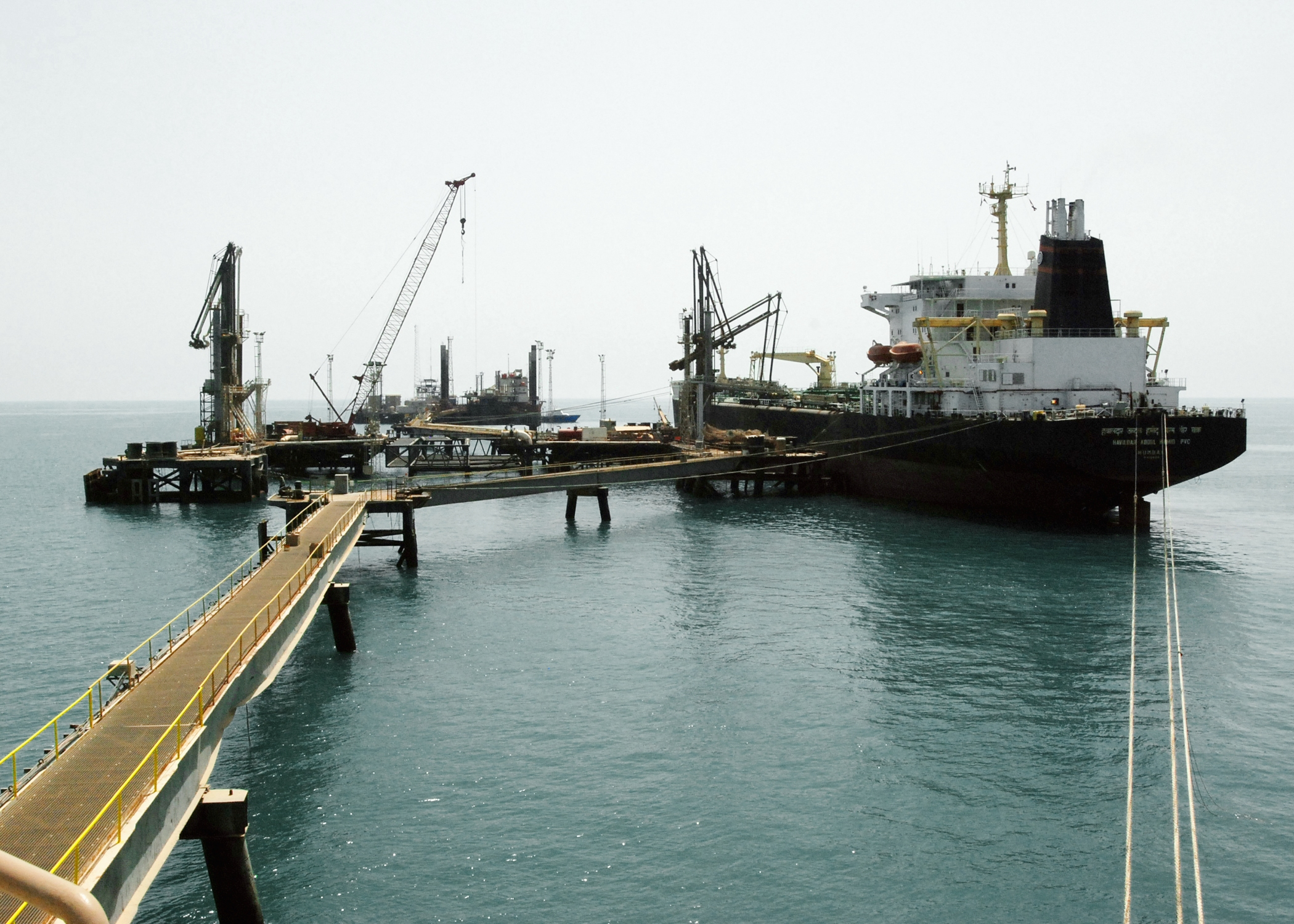 090328-N-0803S-014 PERSIAN GULF (March 28, 2009) M/T hav Abdul Hamid, VWWY, IMO: 8316625, refuels at Iraq's Khawr Al Amaya Oil Platform.